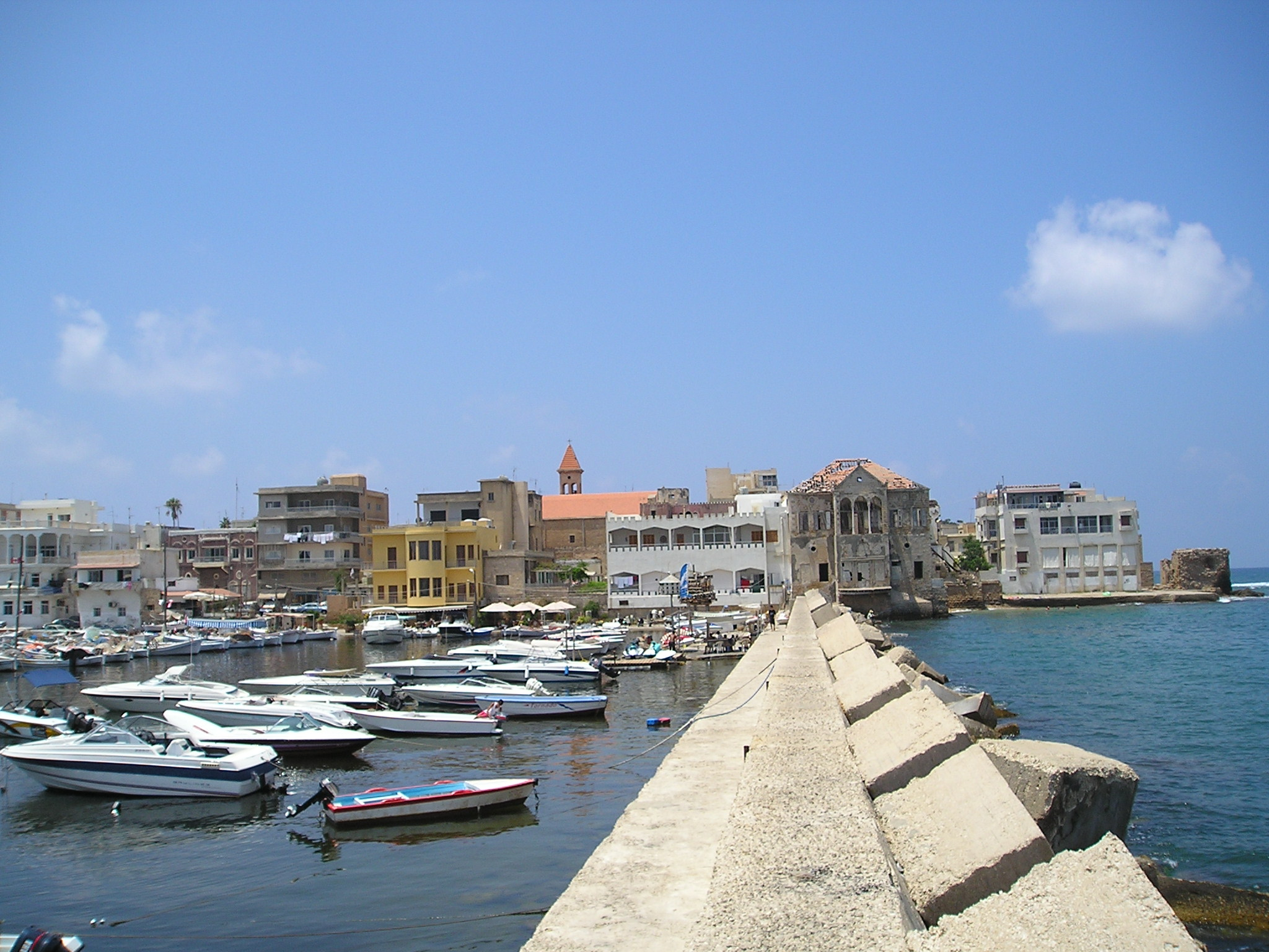 Tyre, Lebanon - a view of the Christian quarter from the fishing harbour pier)